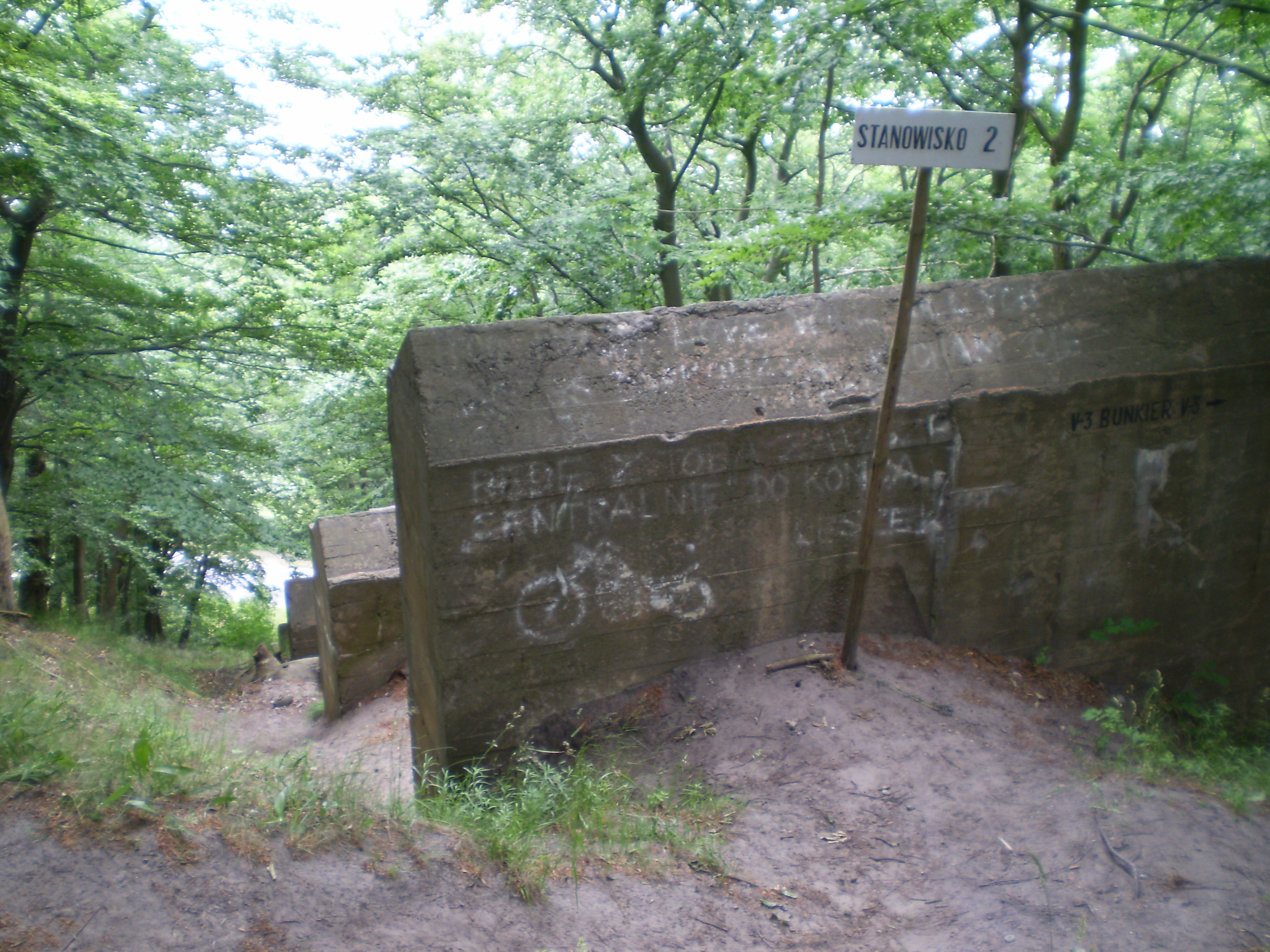 Remainders of the V-3 supergun installations near Międzyzdroje in Poland